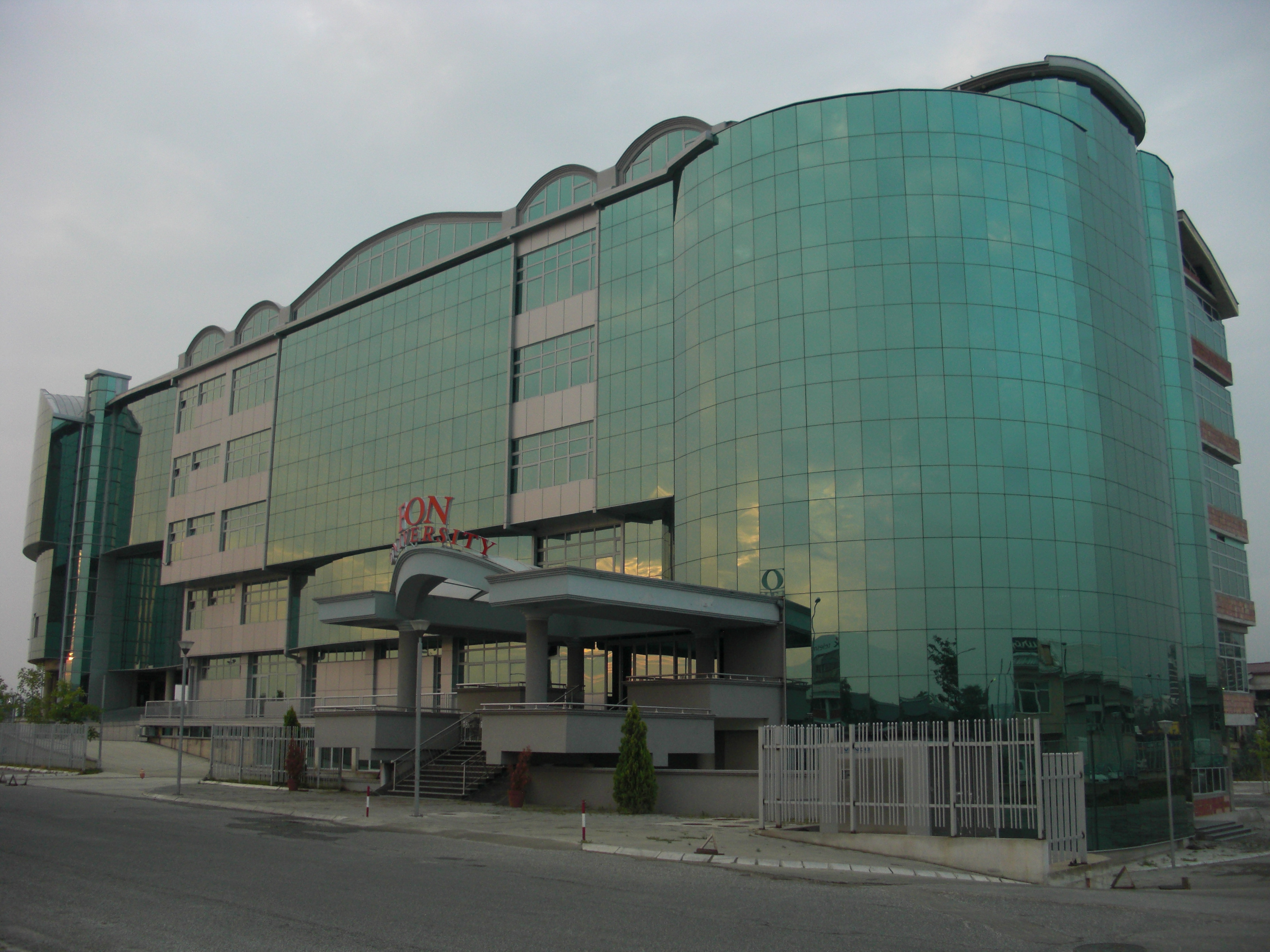 FON University, Skopje, Macedonia